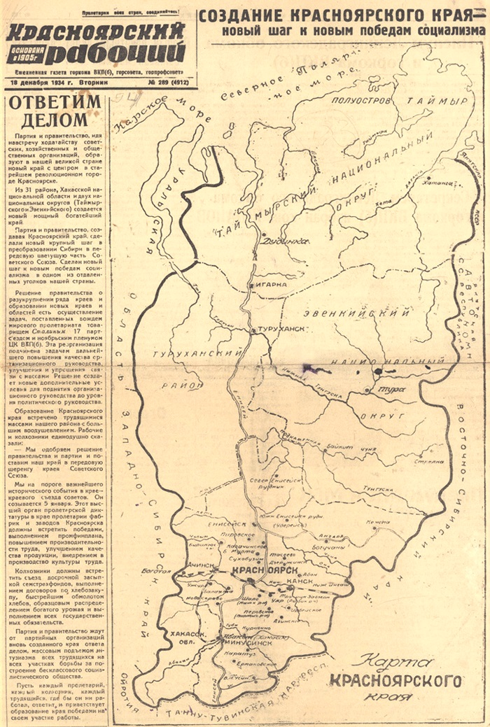 The first sheet of the 1934-12-18 issue of the newspaper Krasnoyarsky Rabochy, announcing Krasnoyarsk Krai being formed.